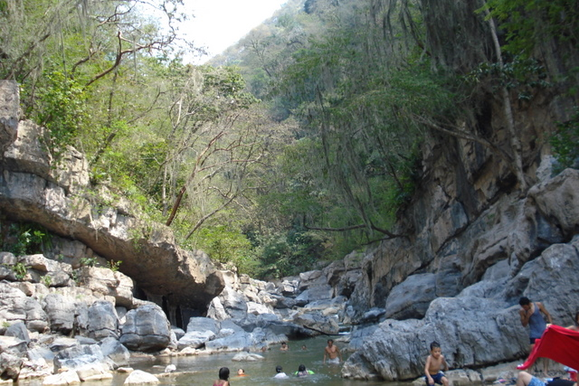 Aguas_Termales_Azacualpa